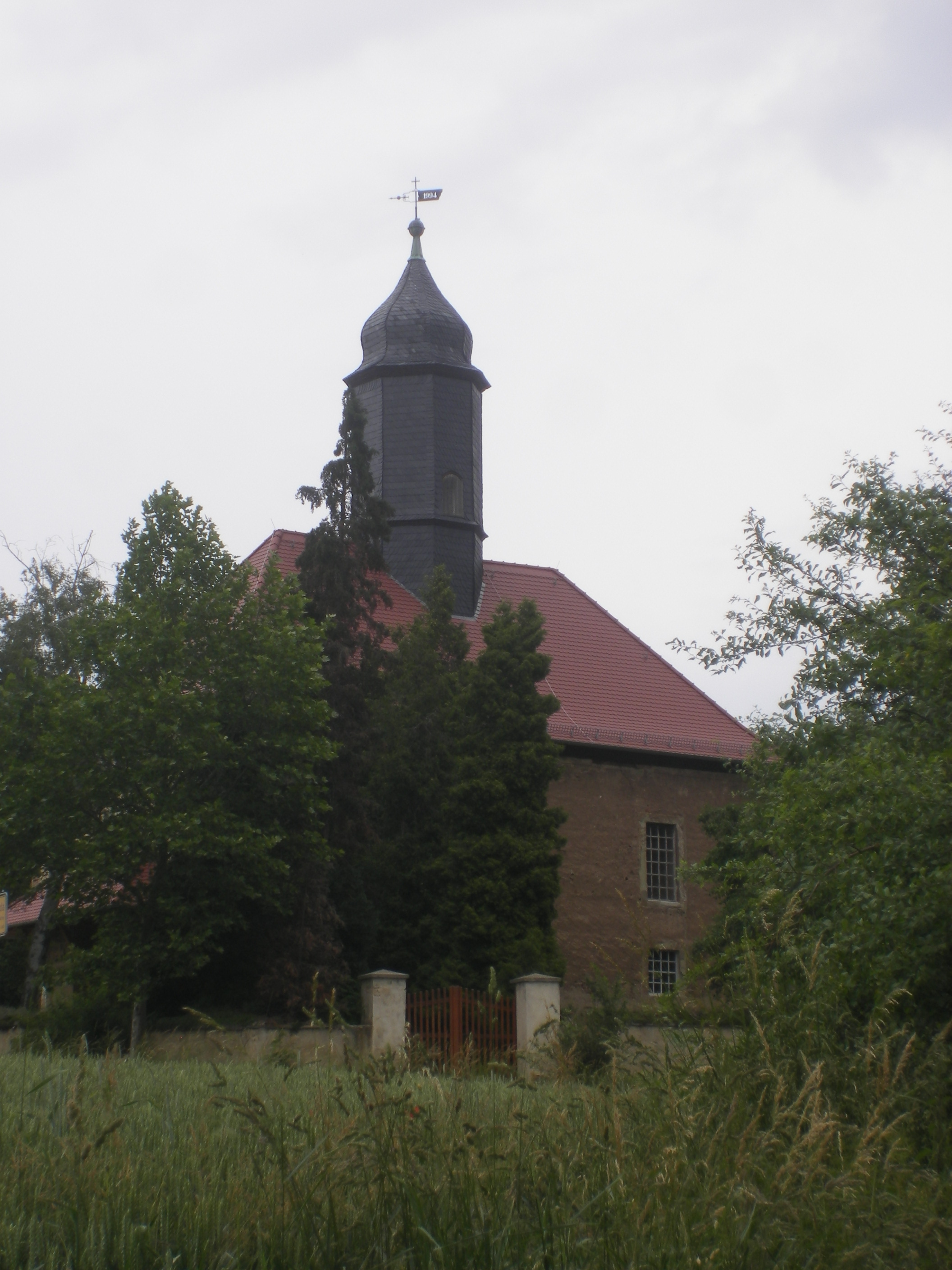 Church in Hartroda near Gera/Thuringia